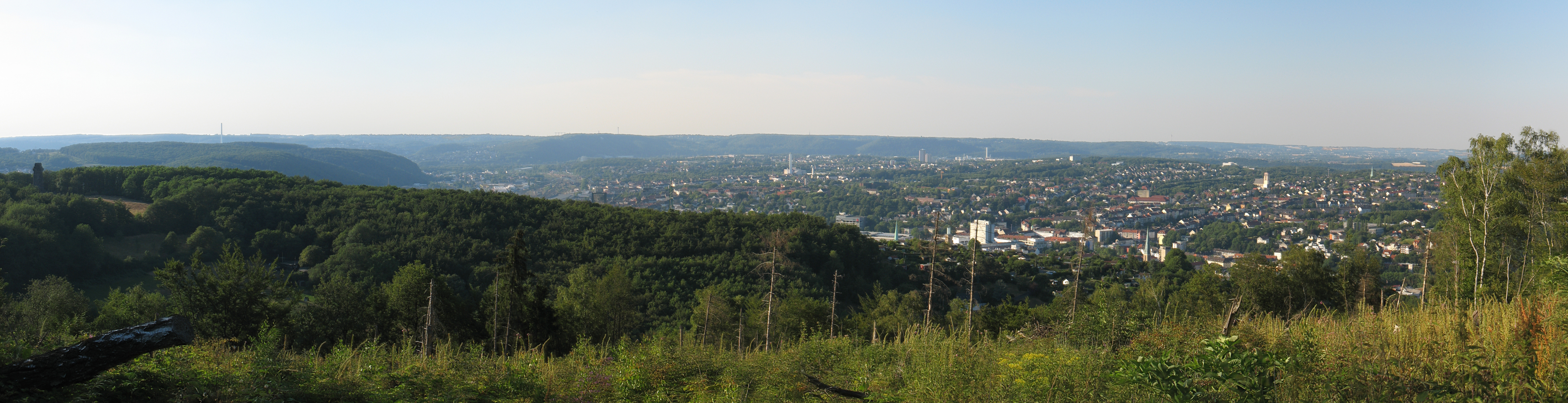 Panorama view of Hagen (city in Western Germany), taken from hill in the city forest of Hagen (Hagener Stadtwald) in northern direction. The Bismarck Tower can be found on the left side of the image. (July 2010, Position: 51°20'38.82"N, 7°28'12.97"E)